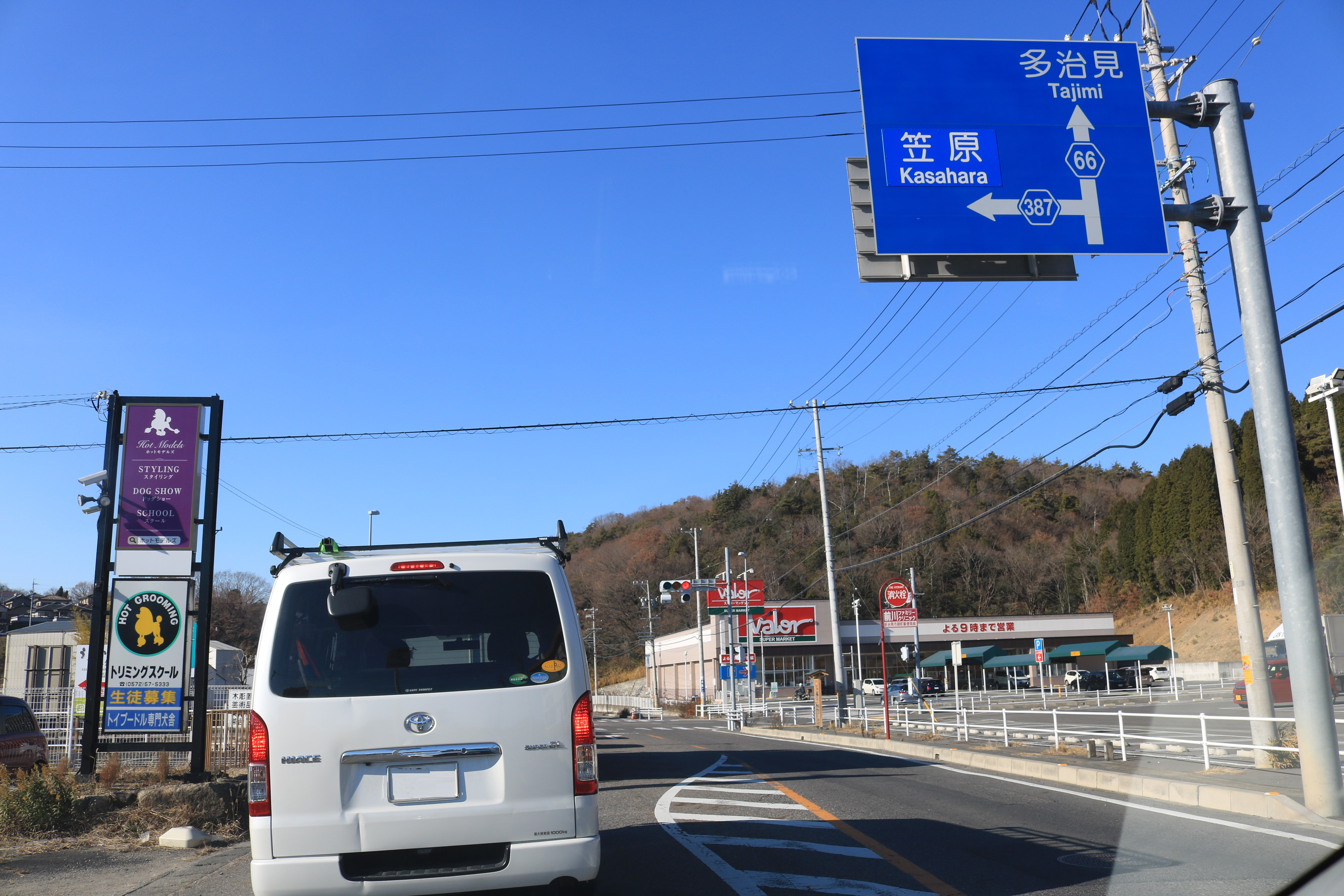 Gifu Prefectural Road Route 66 and Gifu Prefectural Road Route 387 in Oroshicho, Toki, Gifu Prefecture, Japan.